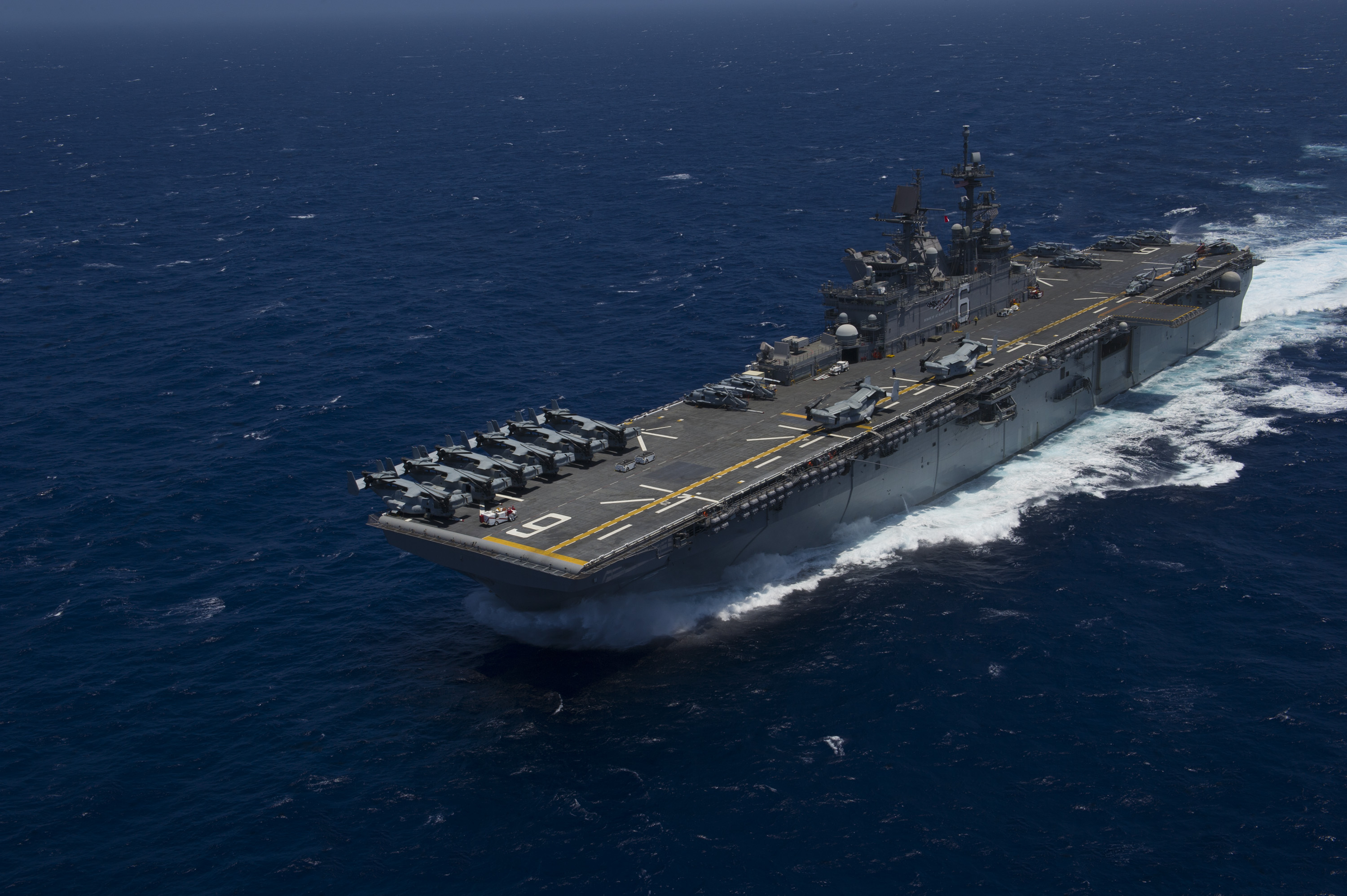 The amphibious assault ship USS America (LHA-6) performs flight operations while underway to Rim of the Pacific 2016. Twenty-six nations, more than 40 ships and submarines, more than 200 aircraft and 25,000 personnel are participating in RIMPAC from June 30 to Aug. 4, in and around the Hawaiian Islands and Southern California. The world's largest international maritime exercise, RIMPAC provides a unique training opportunity that helps participants foster and sustain the cooperative relationships that are critical to ensuring the safety of sea lanes and security on the world's oceans. RIMPAC 2016 is the 25th exercise in the series that began in 1971.